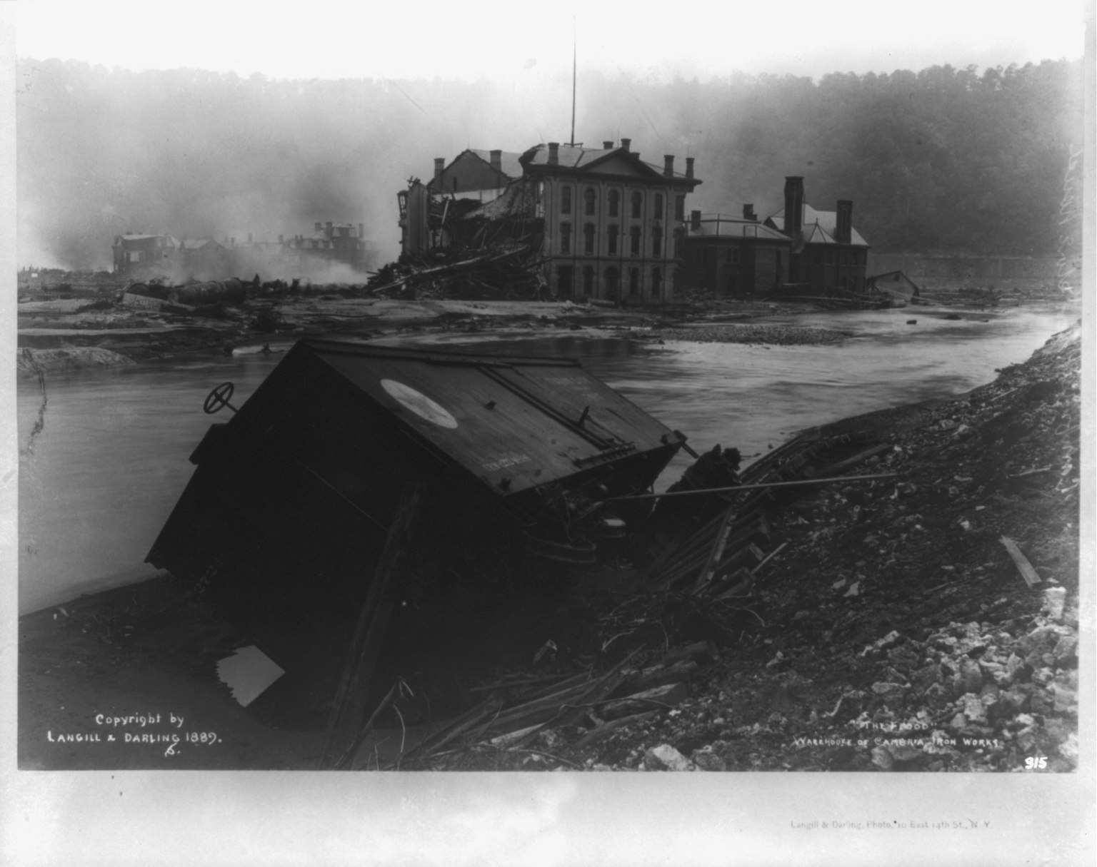 Title: The Flood, Warehouse of Cambria Iron Works Abstract/medium: 1 photographic print.